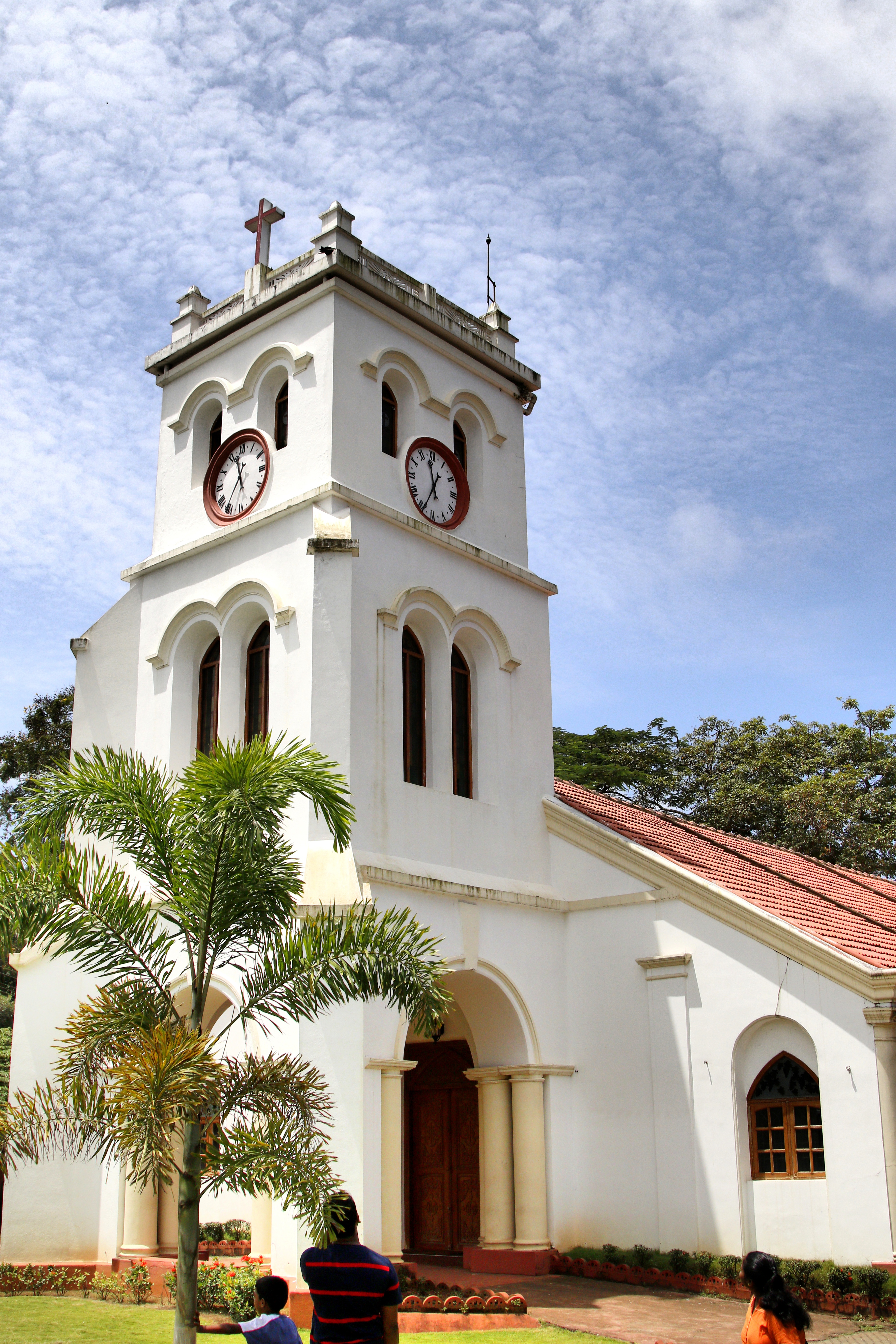 St. Paul's church.Mangaluru.